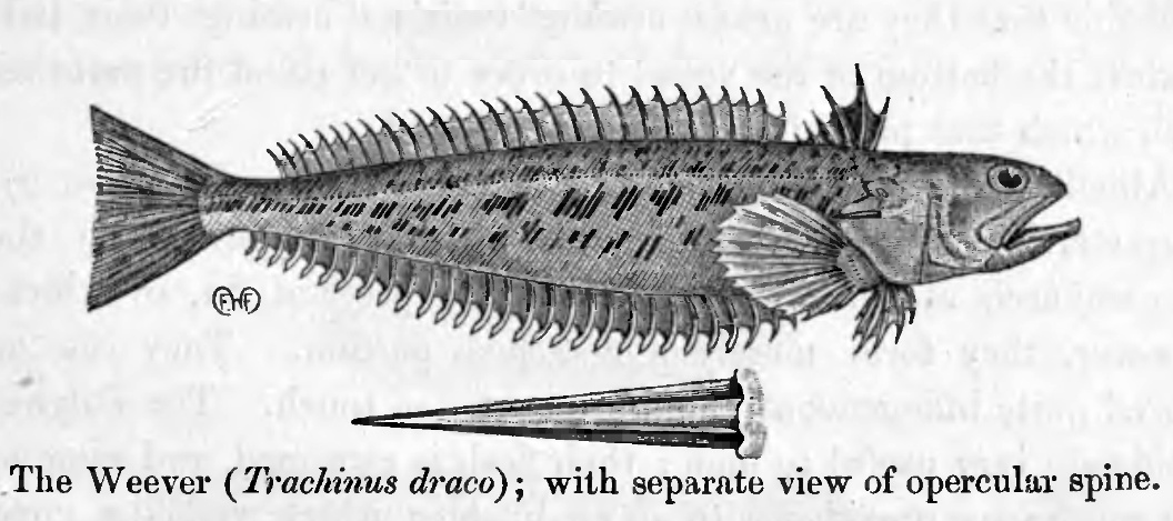 Trachinus draco